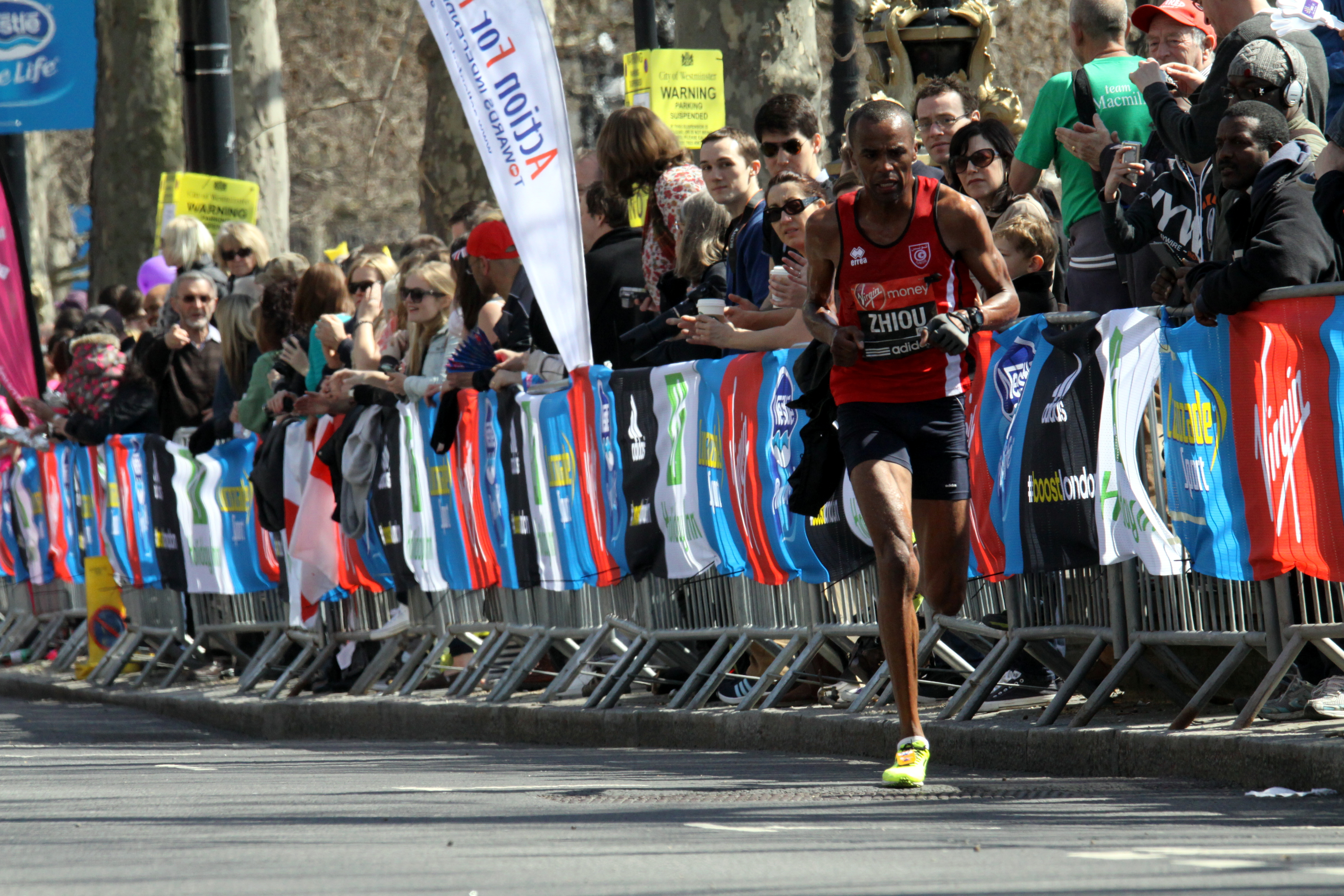 Abderrahim Zhiou during 2013 London Marathon, photographed at Victoria Embankment, London, Great Britain. The making of this file was supported by Wikimedia UK.